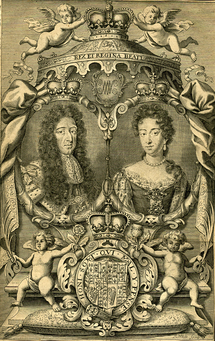 Engraving of King William III and his wife Queen Mary who shared the English monarchy in the late 17th century.